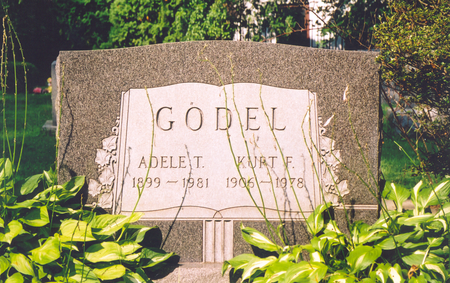 Picture of the tomb of Kurt Godel in the Princeton, New Jersey, cemetery